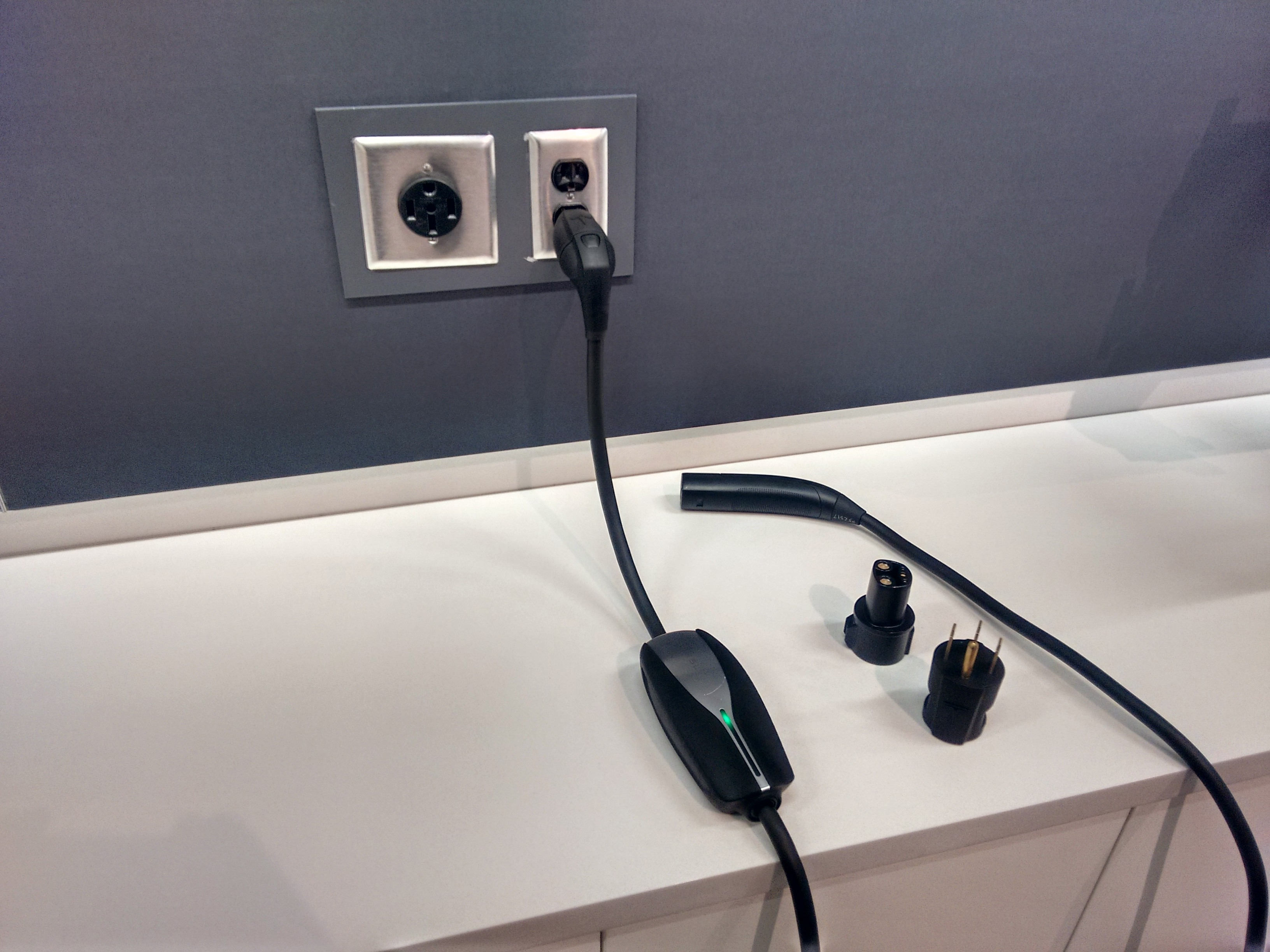 Tesla store, Austin, Texas